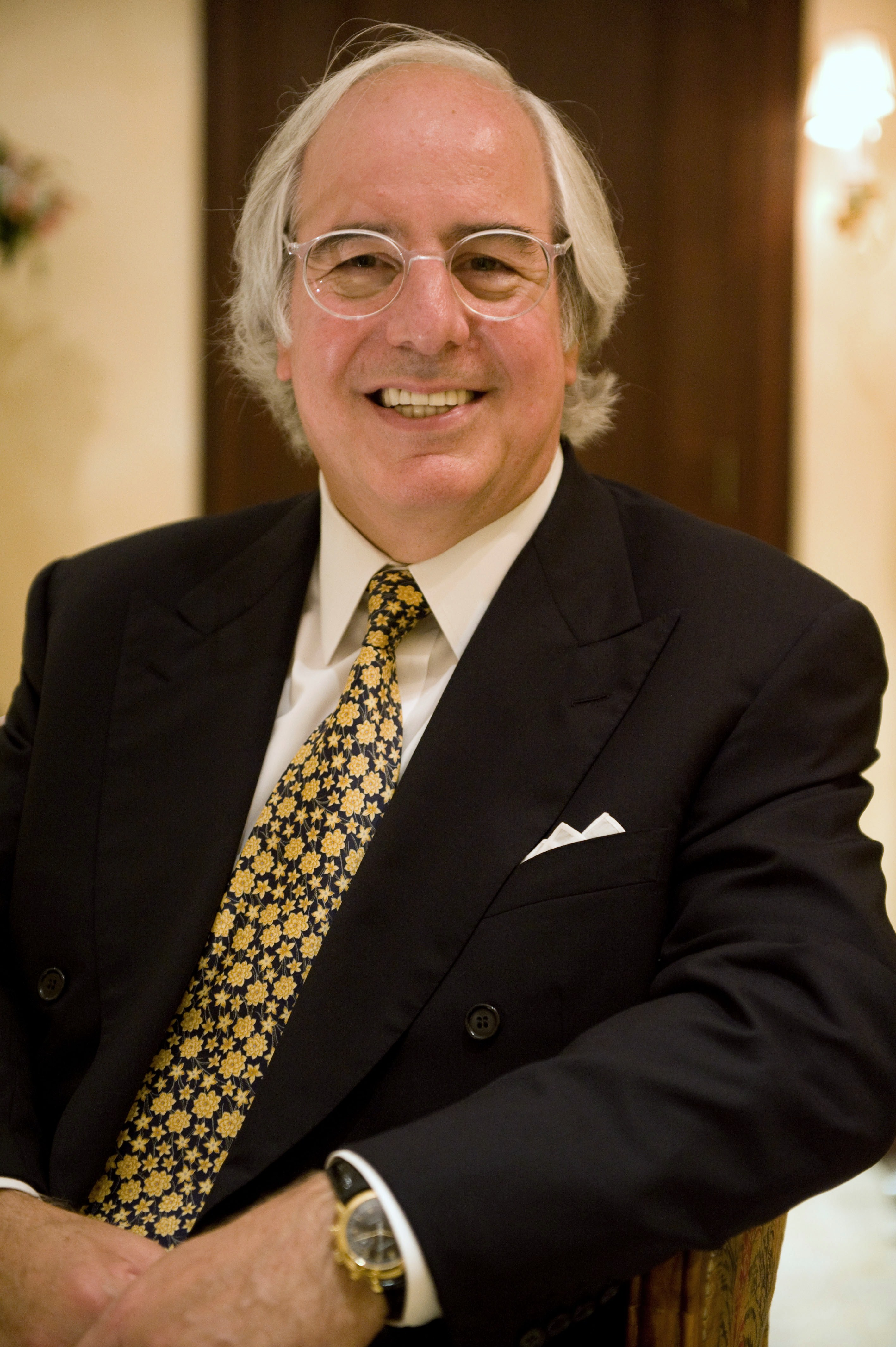 Frank Abagnale at an event.